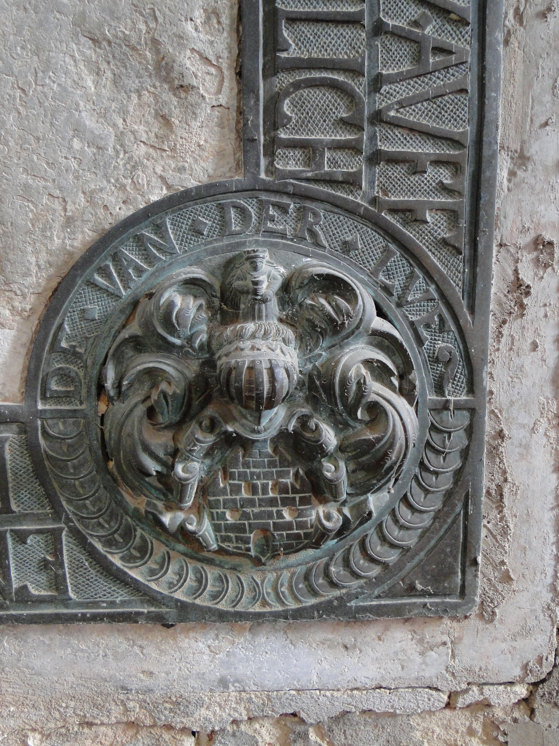 Church in Woosten, district Ludwigslust-Parchim, Mecklenburg-Vorpommern, Germany